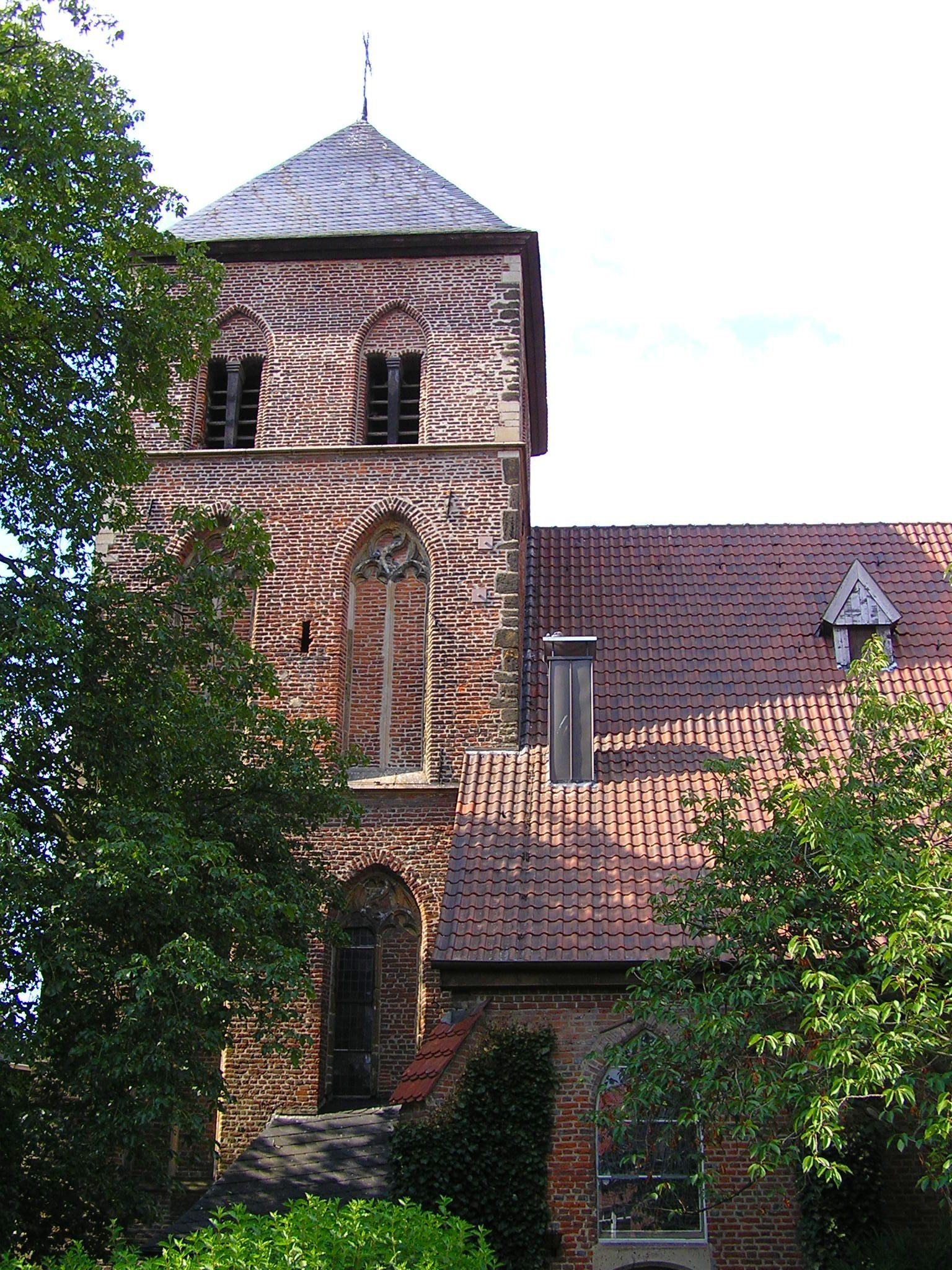 Church of St. Georg in Schermbeck, Germany